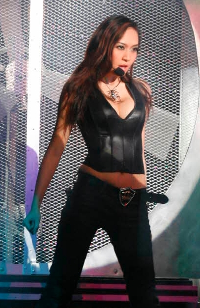 'Magic Babe' Ning at "Magic Day @ the Arena" in Feb 2009